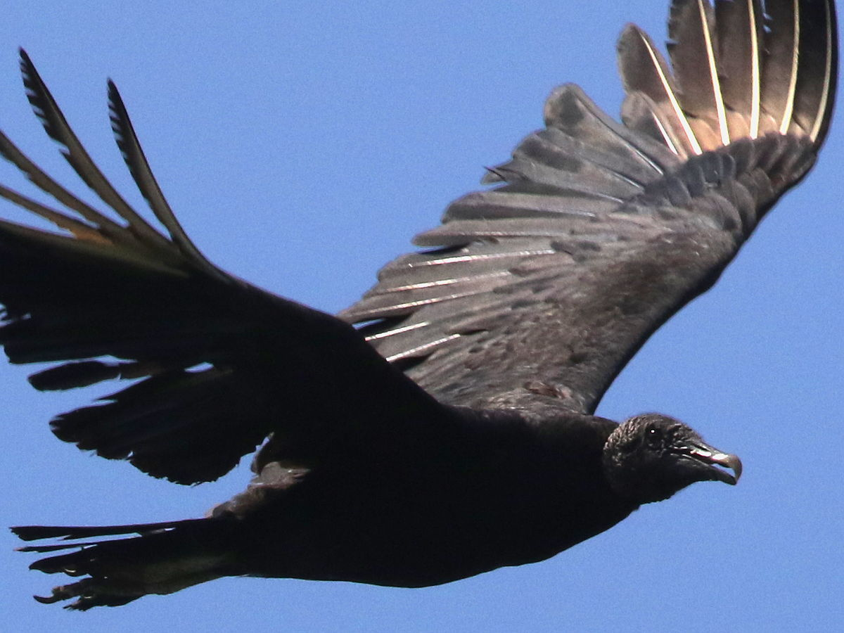 Black vulture soaring over Copacabana beach, Brazil